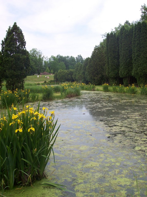 This image was taken in June of 2006 at the Minnesota Landscape Arboretum by Bill Roehl.